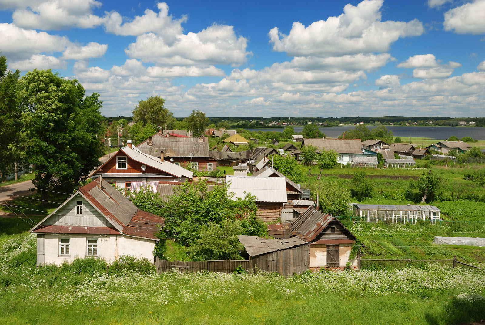 View of Toropets